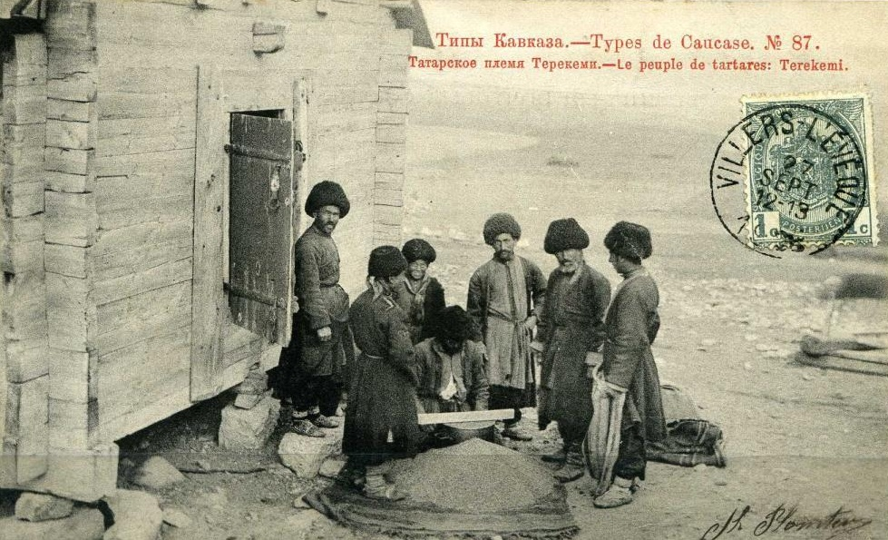 Tatar (i.e. Azerbaijani) tribe Terekeme